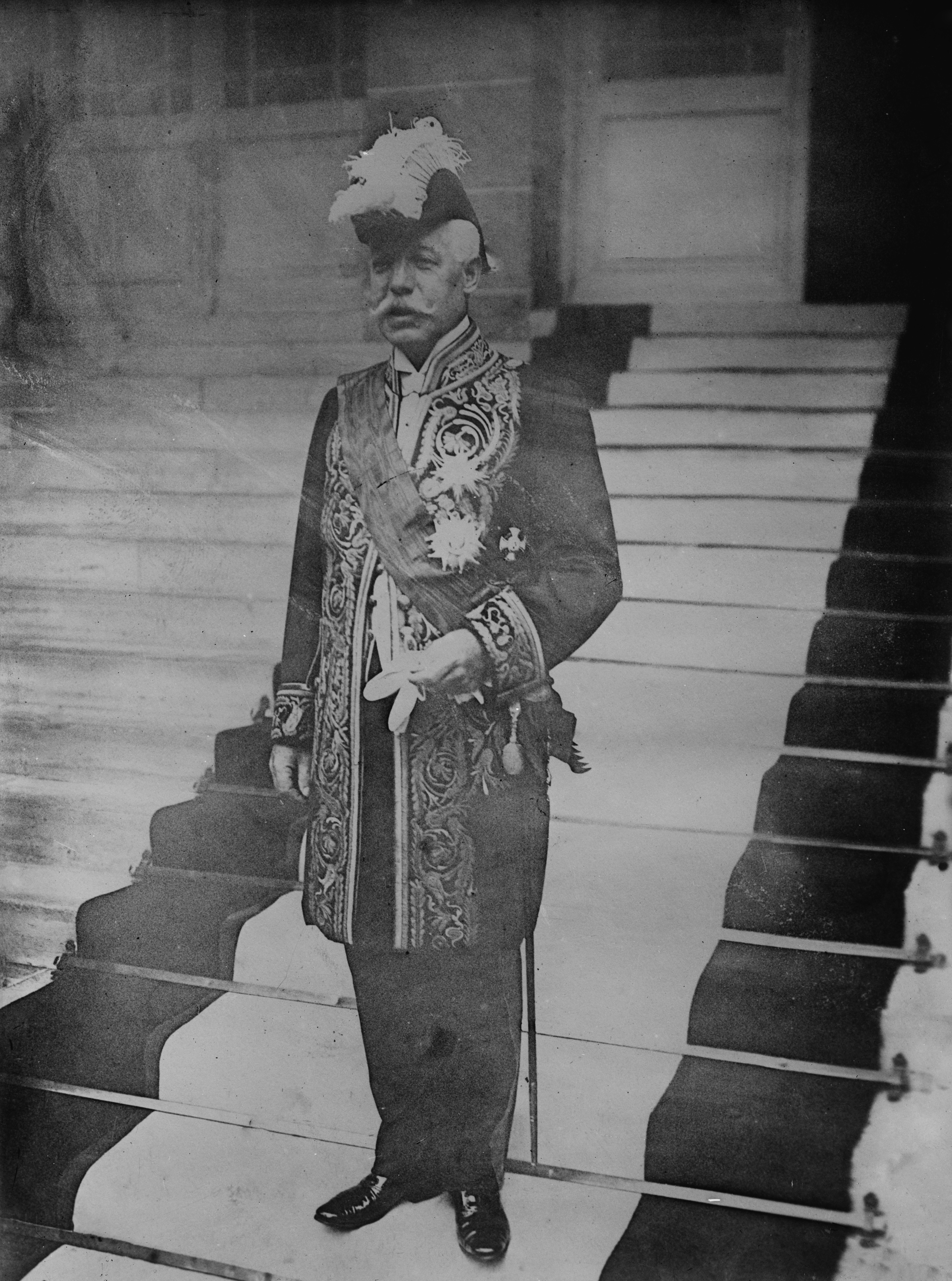 Paris, Baron Von Schon [i.e., Schoen], German Ambassador Photograph shows German diplomat Wilhelm von Schoen (1851-1933) in Paris, France.